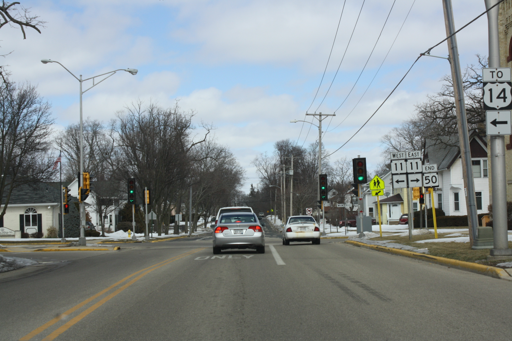 The four lane highway portion of Wisconsin Highway 50 at Slades Corners, Wisconsin.